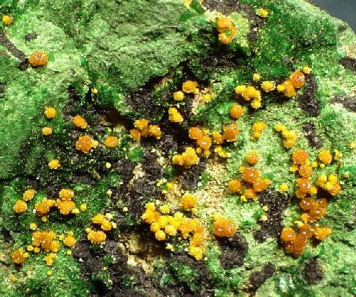 Kasolite, Malachite Locality: Musonoi Mine, Kolwezi, Western area, Katanga Copper Crescent, Katanga (Shaba), Democratic Republic of Congo (Zaïre) (Locality at ) Size: 6.7 x 3.7 x 2.1 cm. A STRIKING and very rich kasolite specimen from the famous Musonoi Mine of Zaire. Kasolite is RARE oxidation product of uraninite and this VERY SHOWY specimen is richly sprinkled with discrete crystals and clusters of radial, yellow-orange kasolite crystals on a sharply contrasting layered malachite matrix. Indeed, a colorful and striking visual specimen. These are classic for the species, hard to obtain today. Ex. Bob Byers collection.